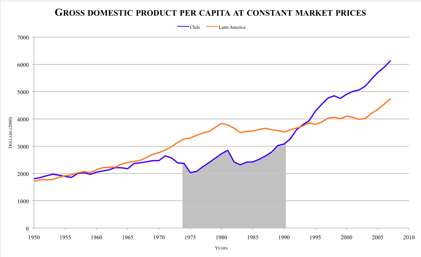 Gross domestic product per capita at constant market prices 1950-2007, Latin America (orange), Chile (blue) (dollars, 2000). Source: ECLAC. Times under Pinochet highlighted.